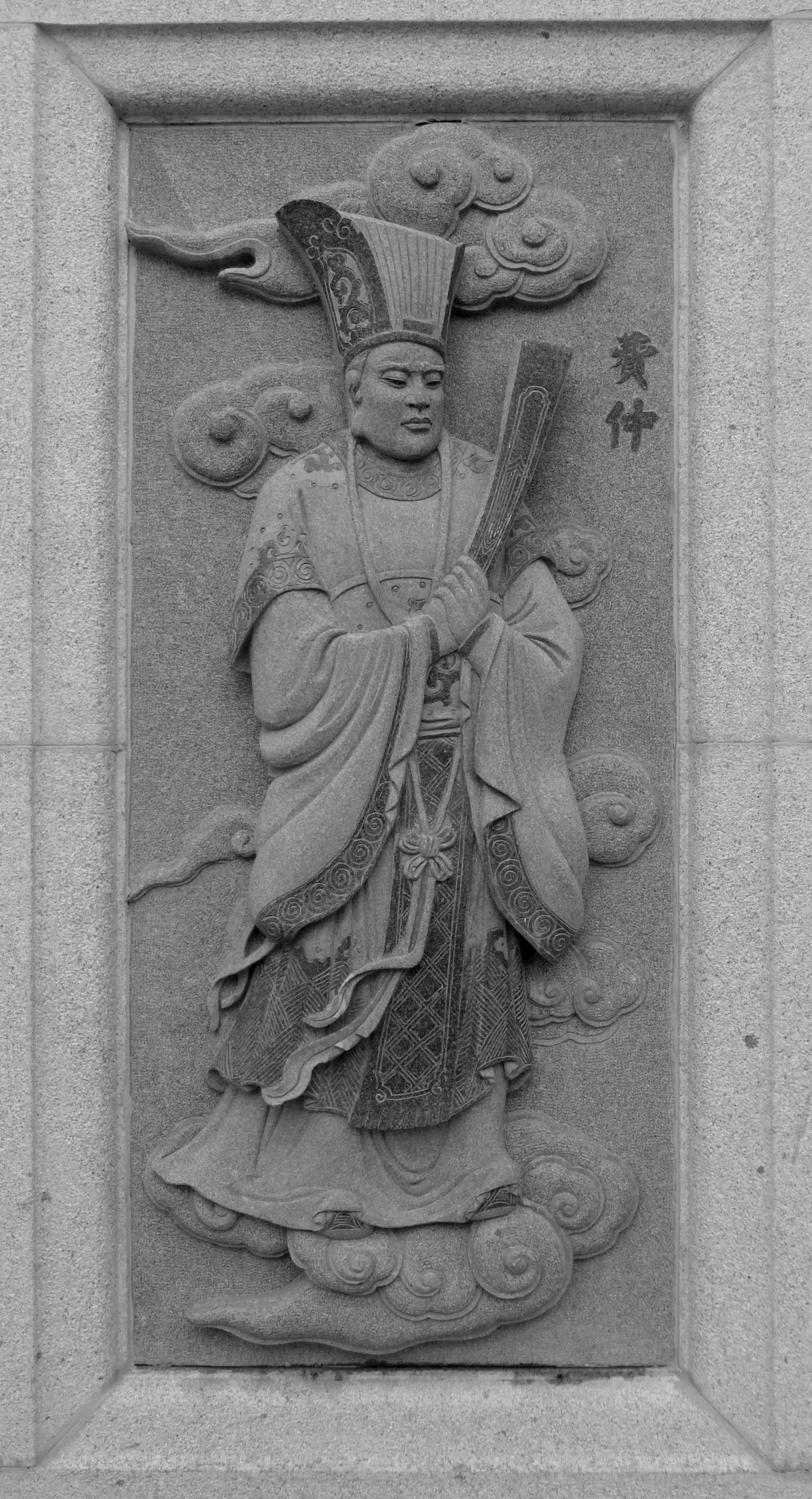 074 Fei Zhong, Investiture of the Gods at Ping Sien Si, Pasir Panjang, Perak, Malaysia Photograph from the Ping Sien Si Temple in Perak, Malaysia taken by Anandajoti.